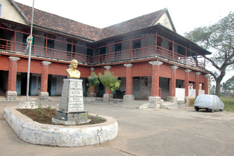 Photo of Kugler Hospital, Guntur